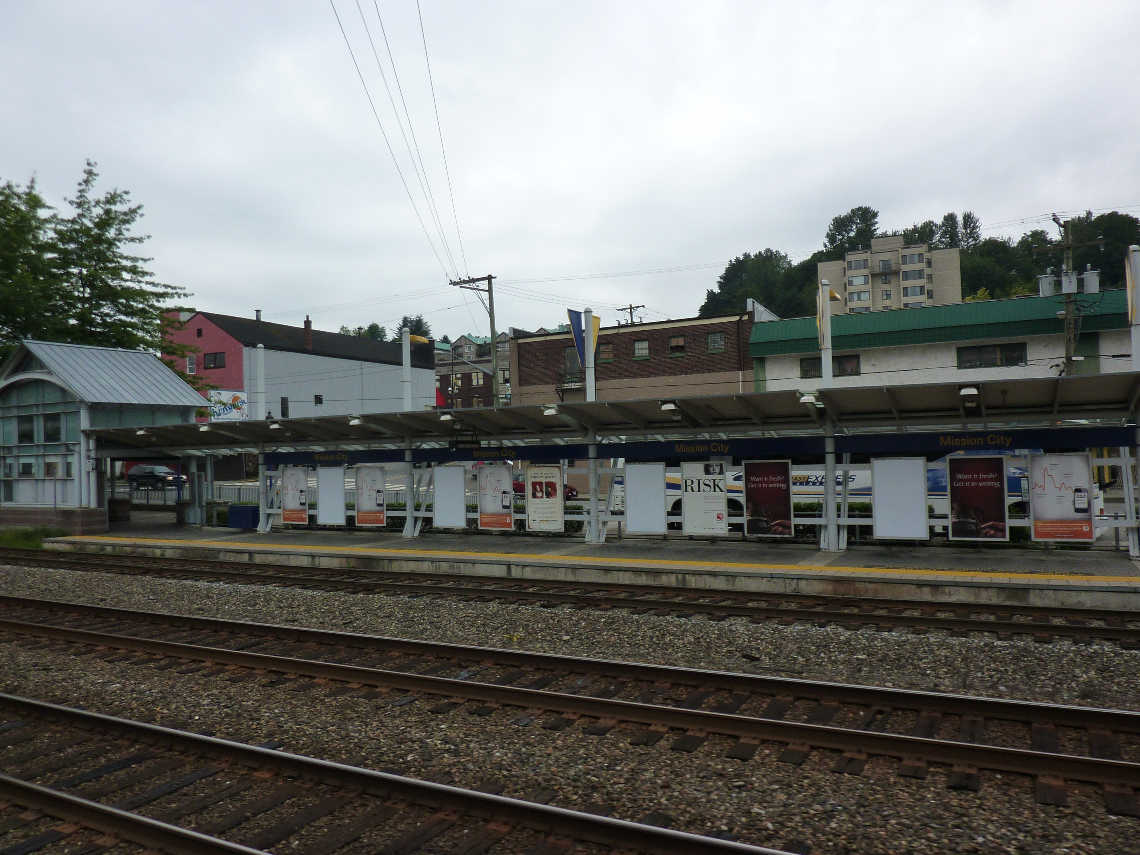 This was one of the few actual railway stations the Rocky Mountaineer goes through. Mission is a city that's the outer limit of the West Coast Express which provides commuter trains to Vancouver, taking about 80 minutes to get there. Or for a slower journey, you can take the West Coast Express TrainBus! Which is a bus. That follows the train line.